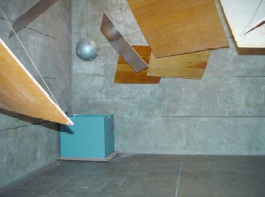 echo chamber of the Dresden University of Technology